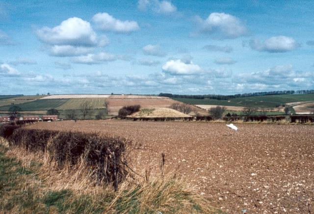 Duggleby Howe. Another Neolithic Barrow site on the side of the Gypsey Race. Looking North along road with village of Duggleby in background.